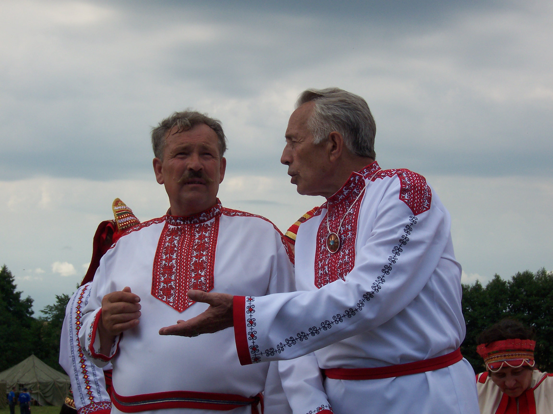 Rasken Ozks, 2007.